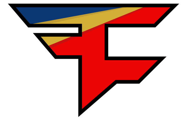 The official logo of FaZe Clan